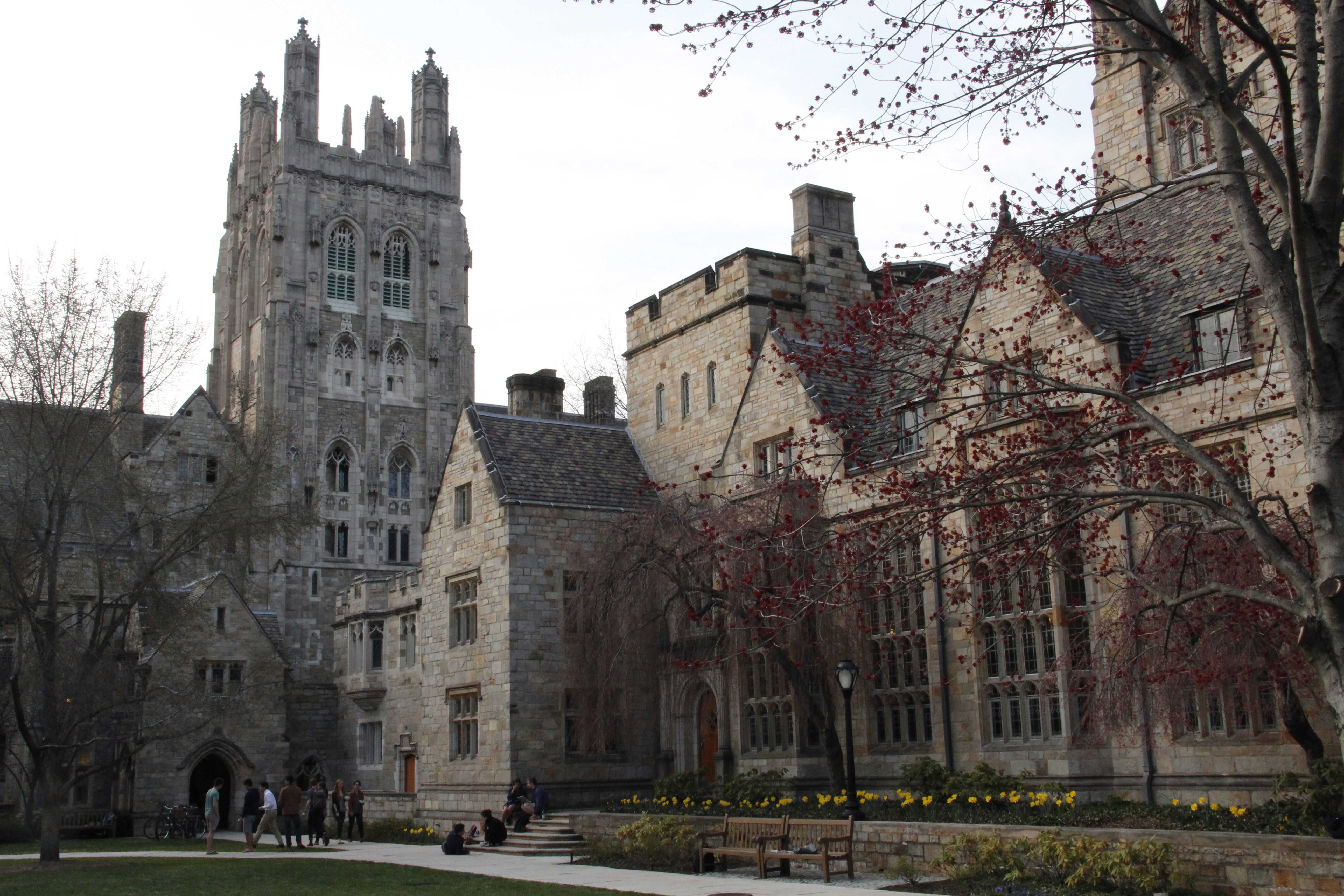 Branford Court with Wrexham Tower in the background in the Memorial Quadrangle (part of Branford College), Yale University, New Haven, CT